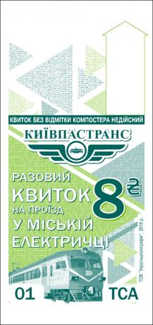 One-ride ticket for Kiev Urban Rail, costs 8 UAH. In effect since 2018-07-14.